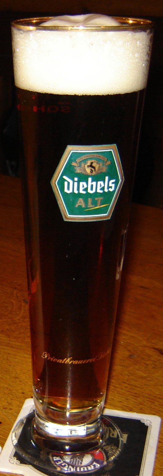 A glass of "Altbier", a German specialty from Düsseldorf.